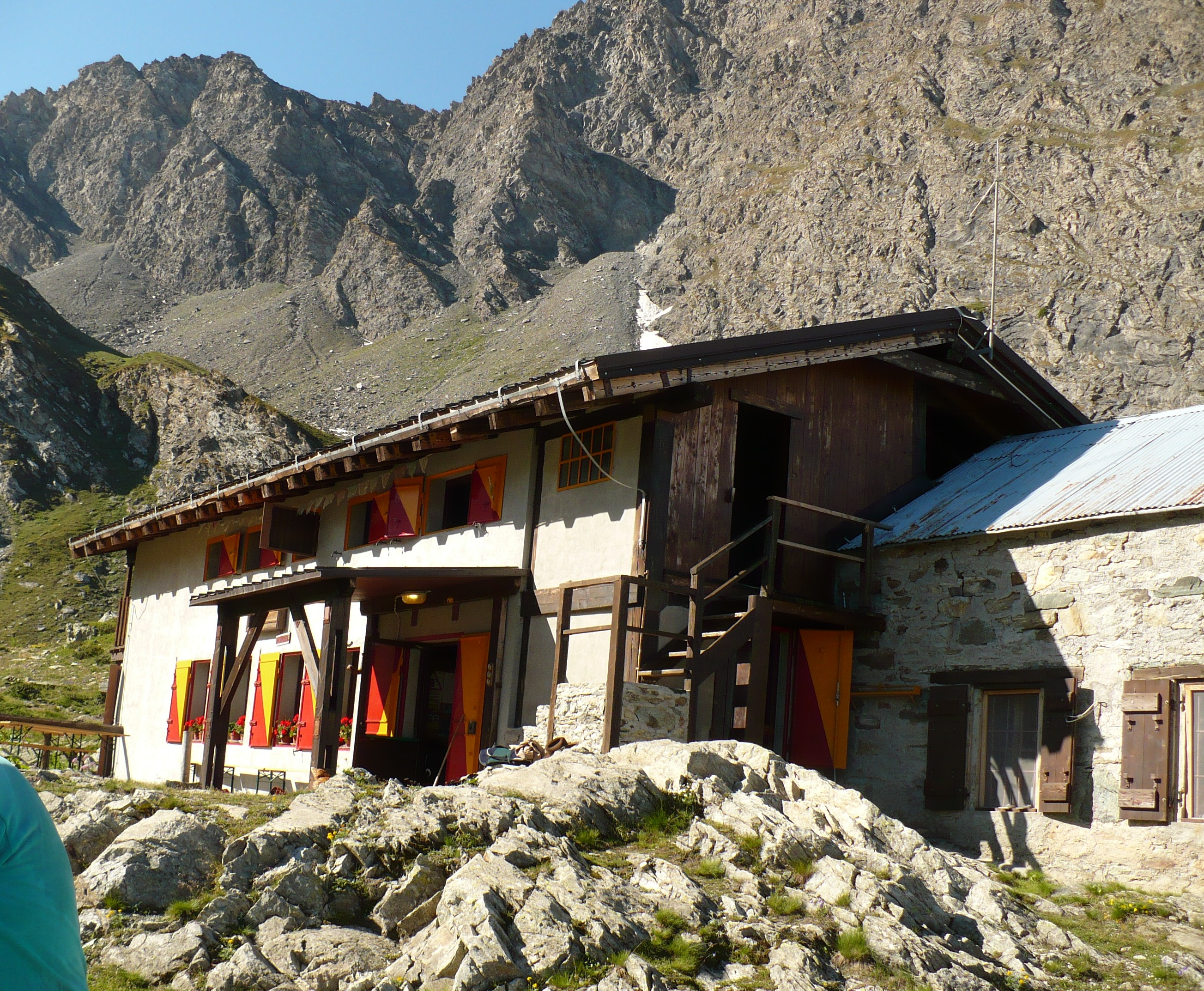 Rifugio Granero - Val Pellice - Cottian Alps - Italy